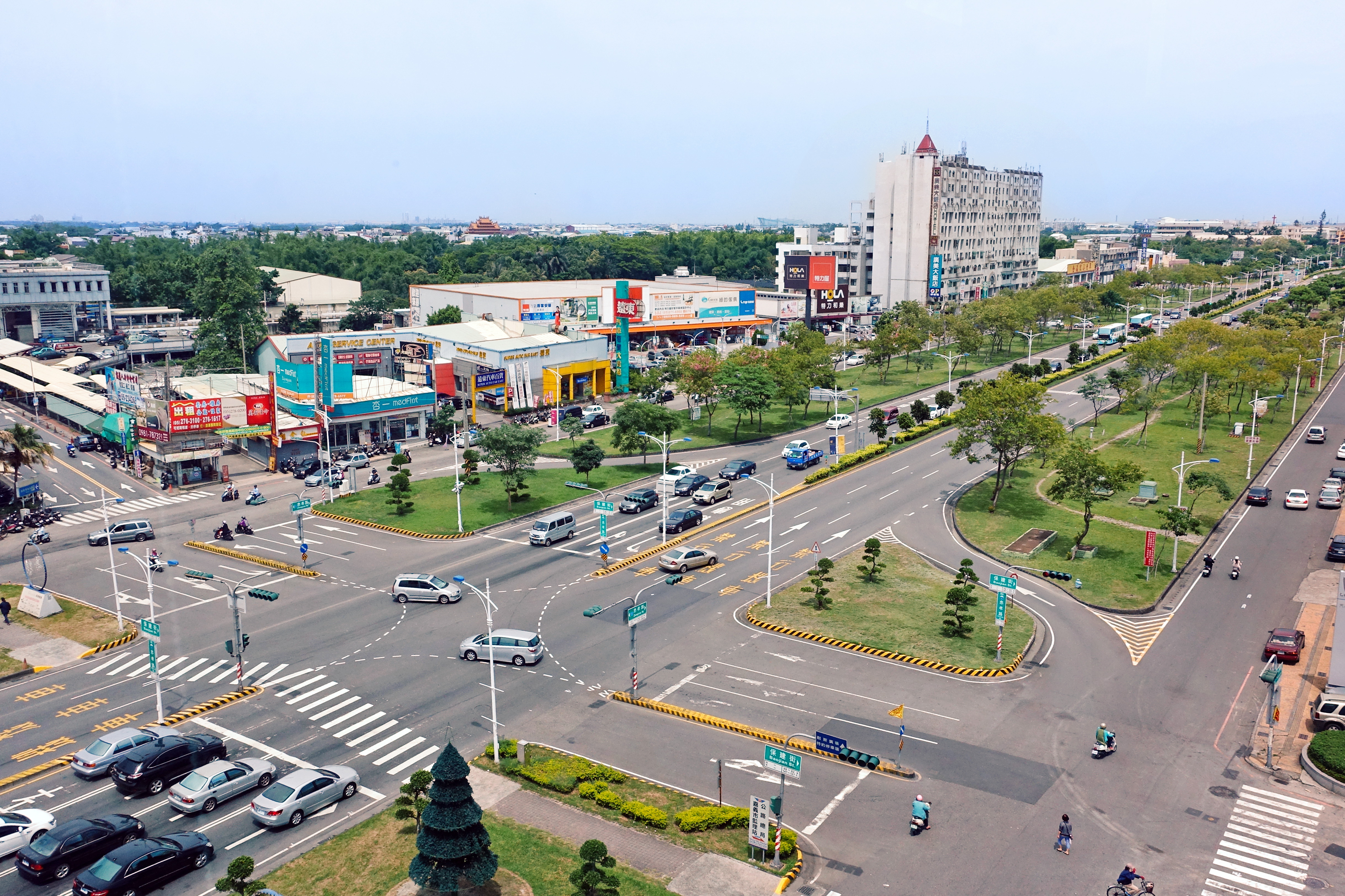 Zhongxiao Road, Chiayi City, Taiwan.